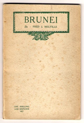 Front cover of Brunei by Fred Melville.